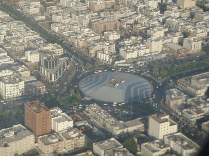 Jeddeh city from the plane